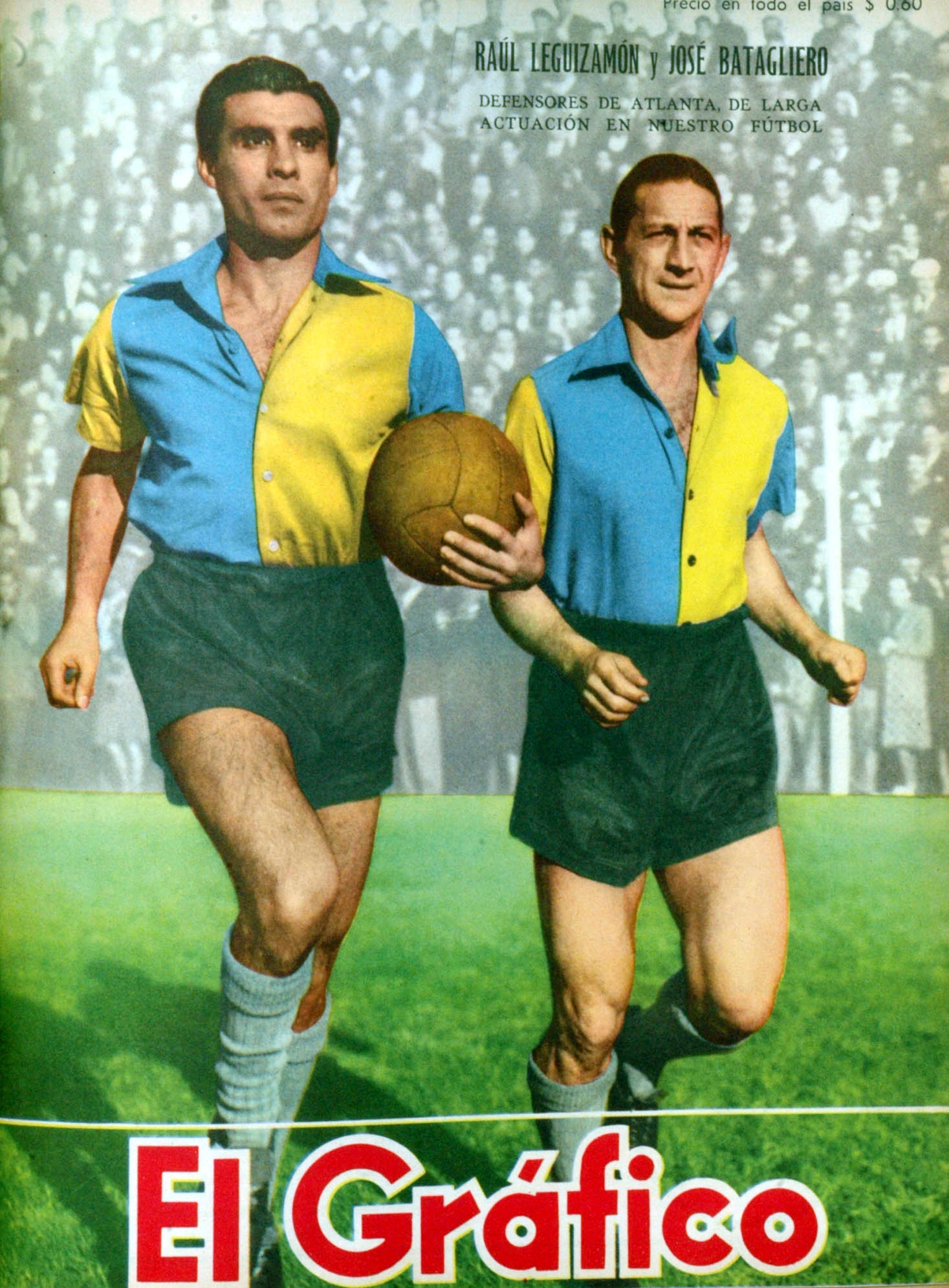 Raúl Leguizamón and José Batagliero, players of C.A. Atlanta.